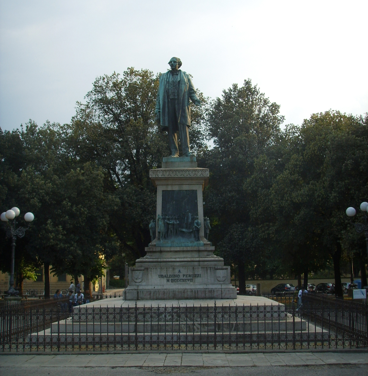 Statue of Ubaldino Peruzzi on the Piazza Indipenza in Florence, Italy.